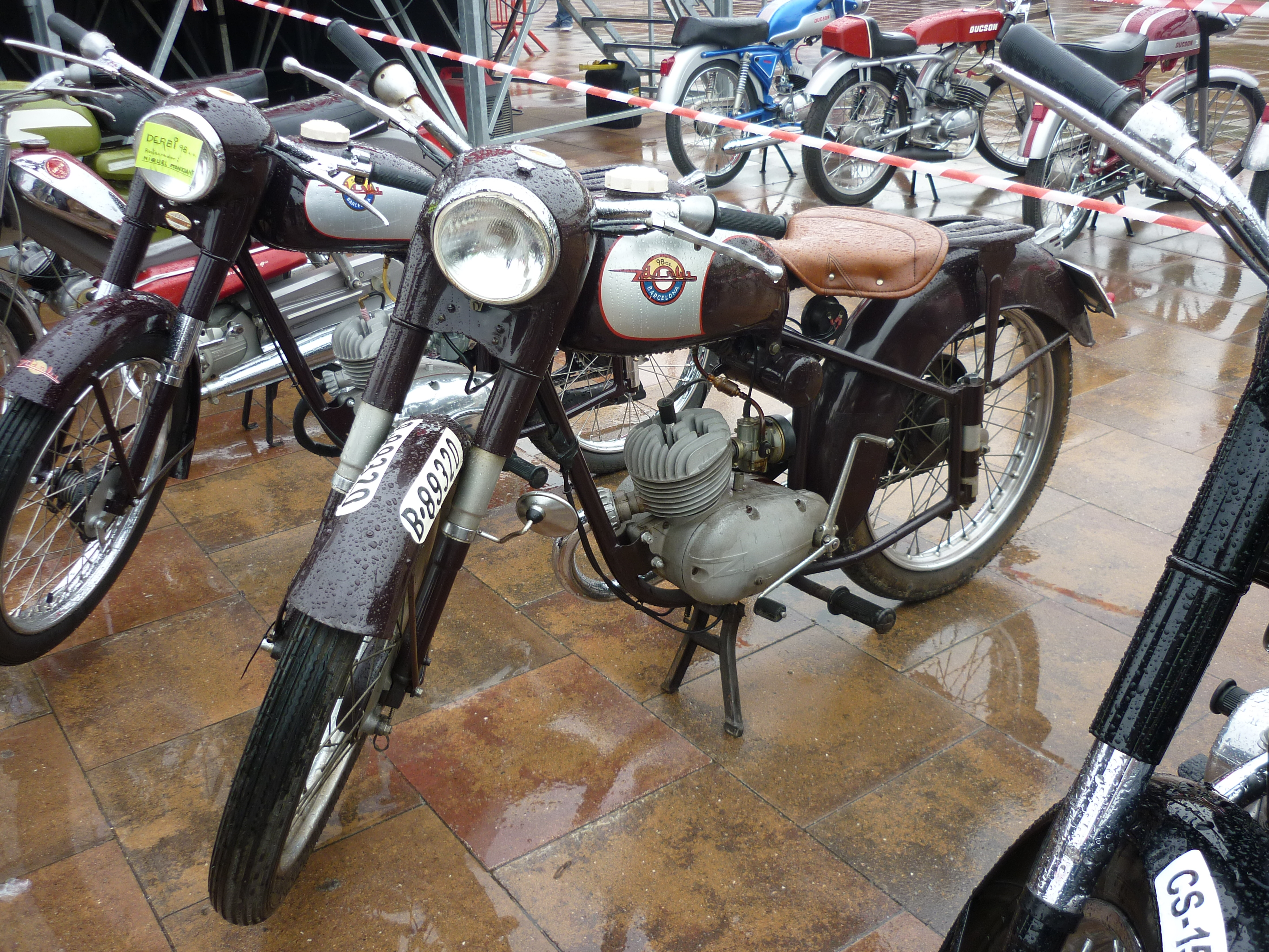 Derbi 98, 1954